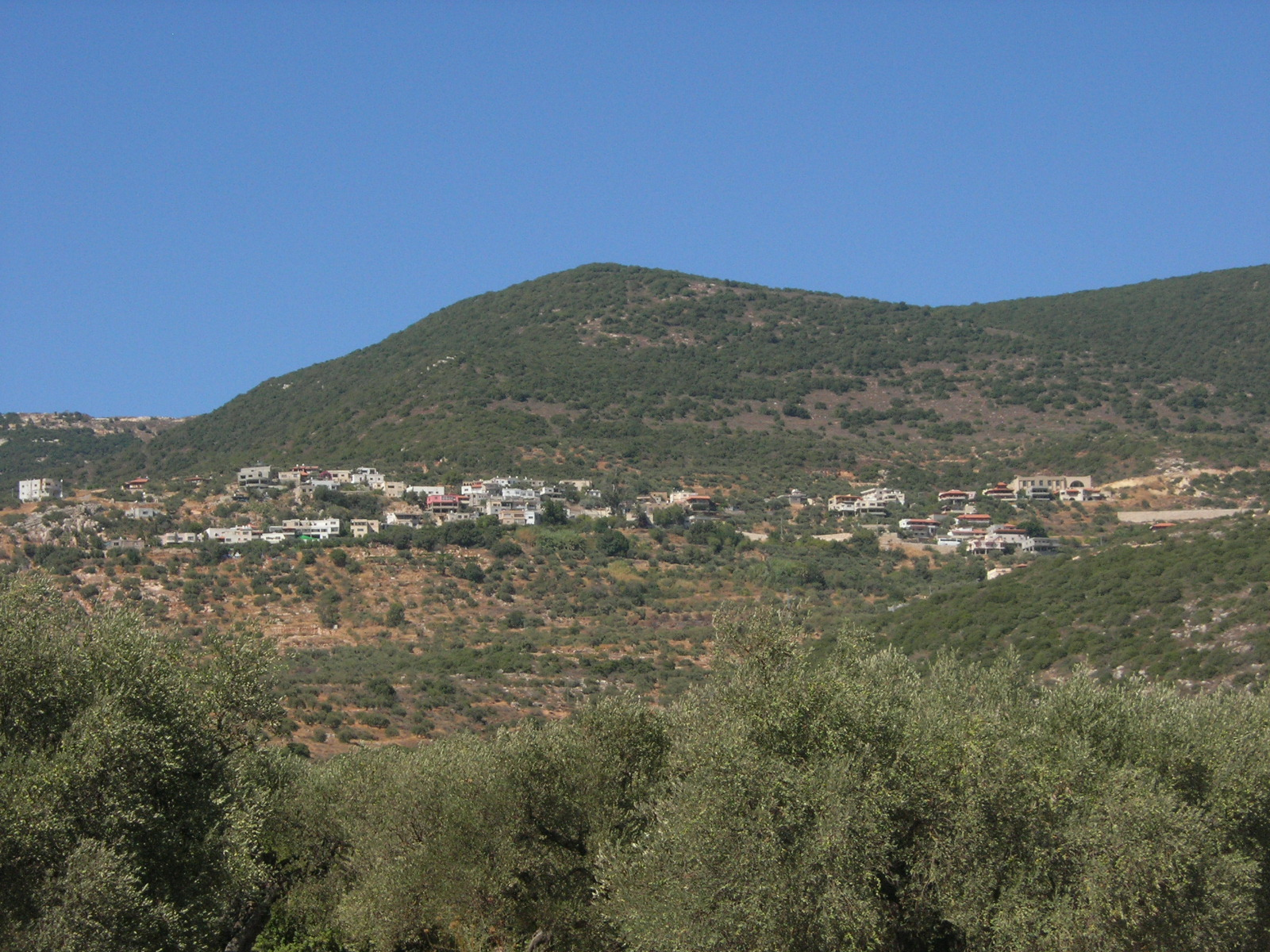 Ein el-Assad, a Druze village in the Upper Galilee, Israel